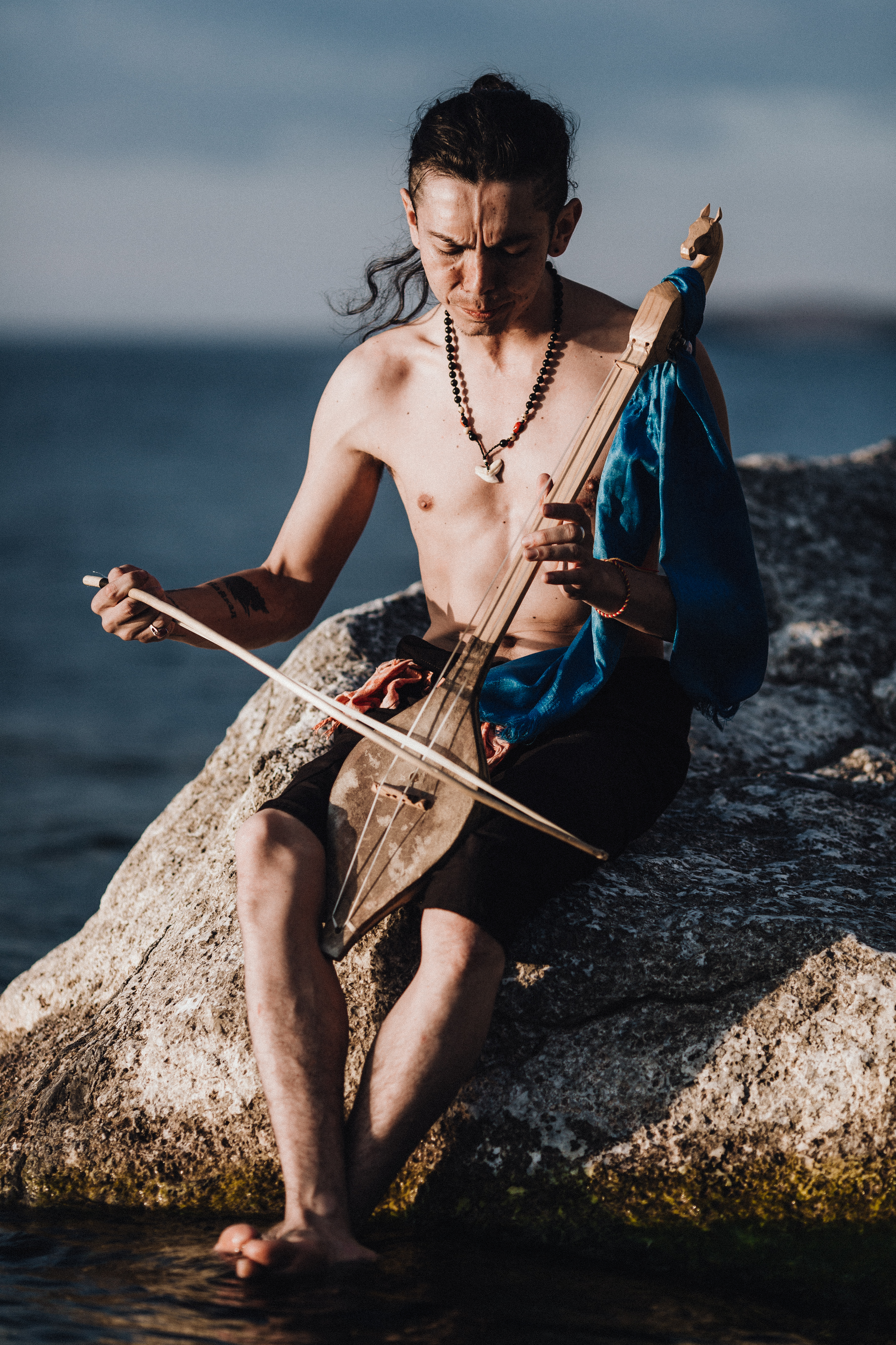 Ikaro Valderrama, colombian music, playing on Olkhon Island, Lake Baikal, Siberia.